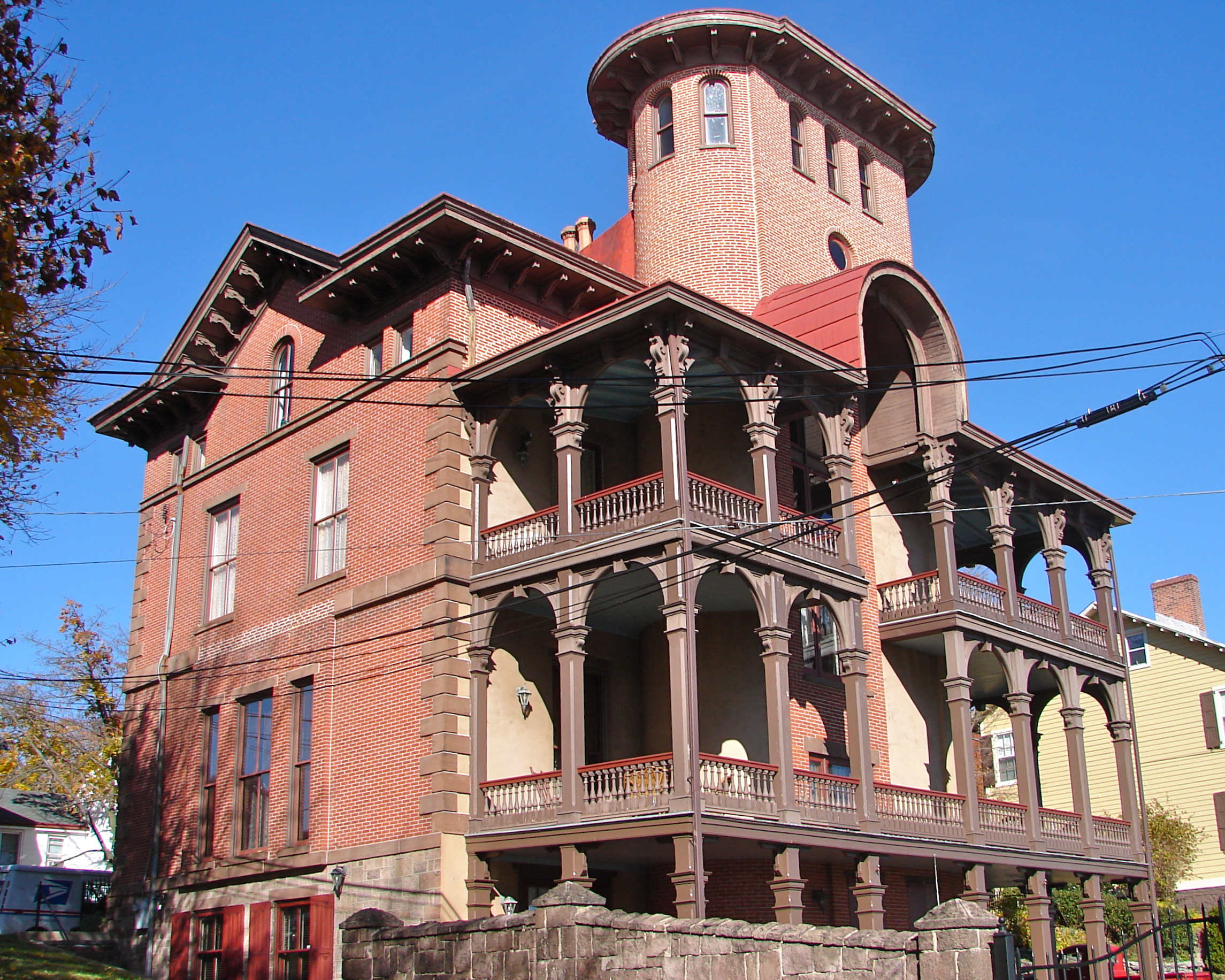 Dorrance Mansion on the NRHP since October 16, 1986. At 300 Radcliffe Street, Bristol, Bucks County Pennsylvania. Built late 1860s on the banks of the Delaware River (this photo taken with one foot hanging over the water).